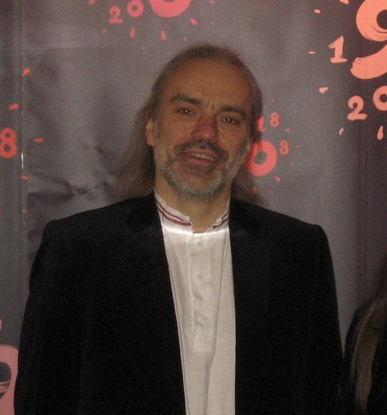 Taken at the Berlin City Hall